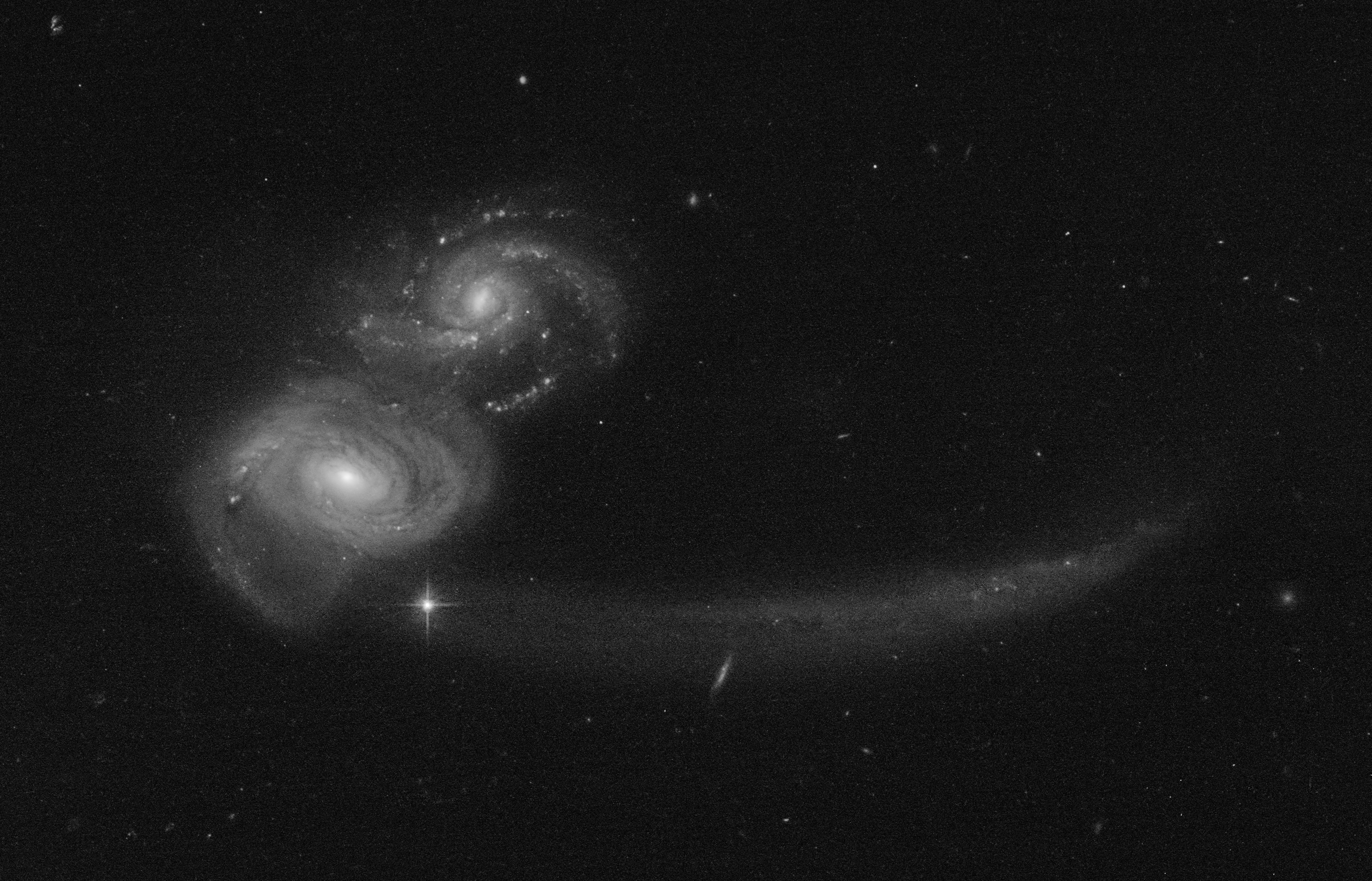 A large tail extending from two otherwise unperturbed-looking spirals. To the left of this group is a third member apparently involved in the interaction as indicated by the much less obvious stream extending in that direction. Data from the following proposal is used to create this image: Establishing HST's Low Redshift Archive of Interacting Systems All channels: ACS/WFC F606W North is 68.30° clockwise from up.